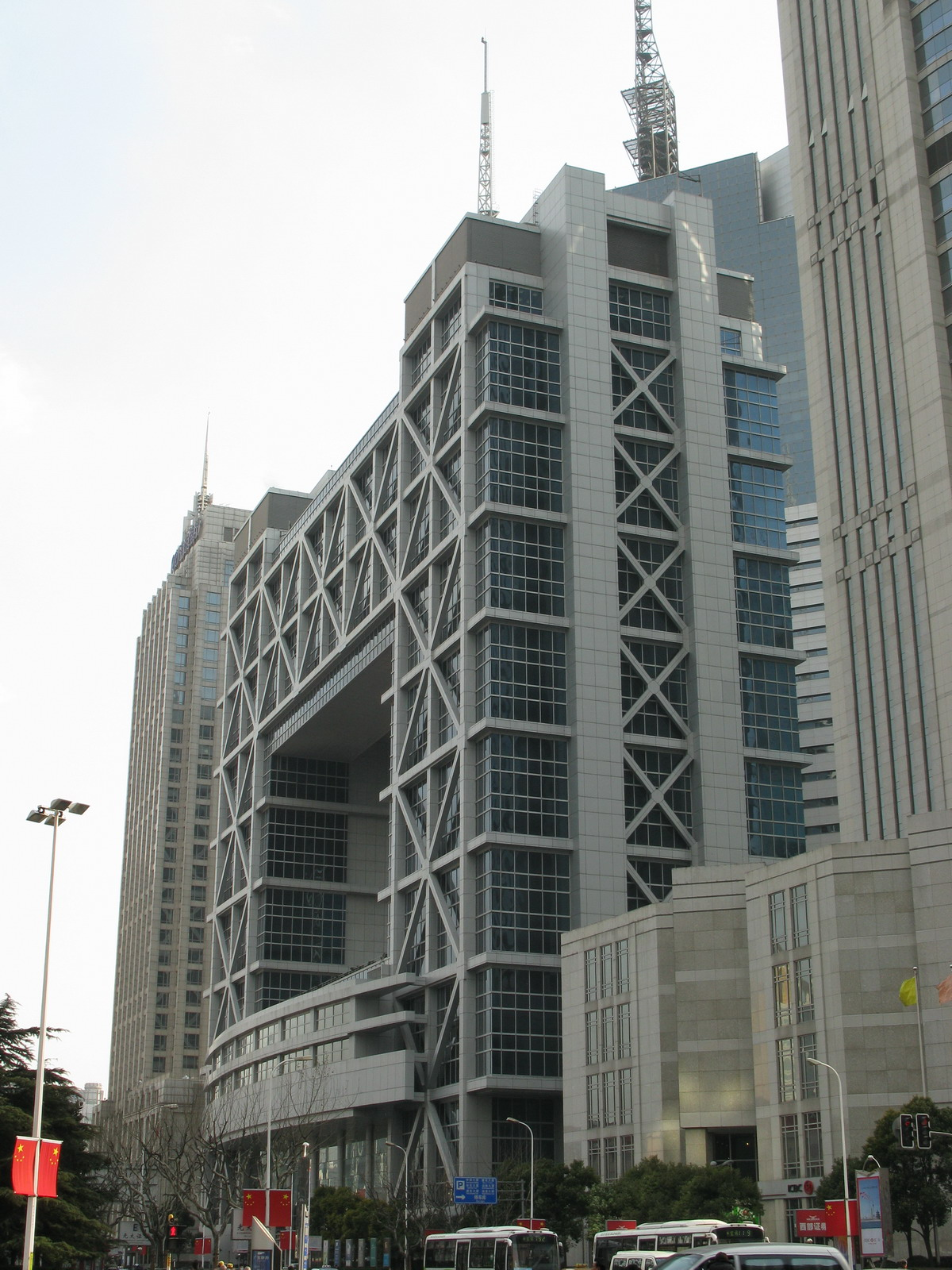 上海证券大厦 Shanghai Stock Exchange Building